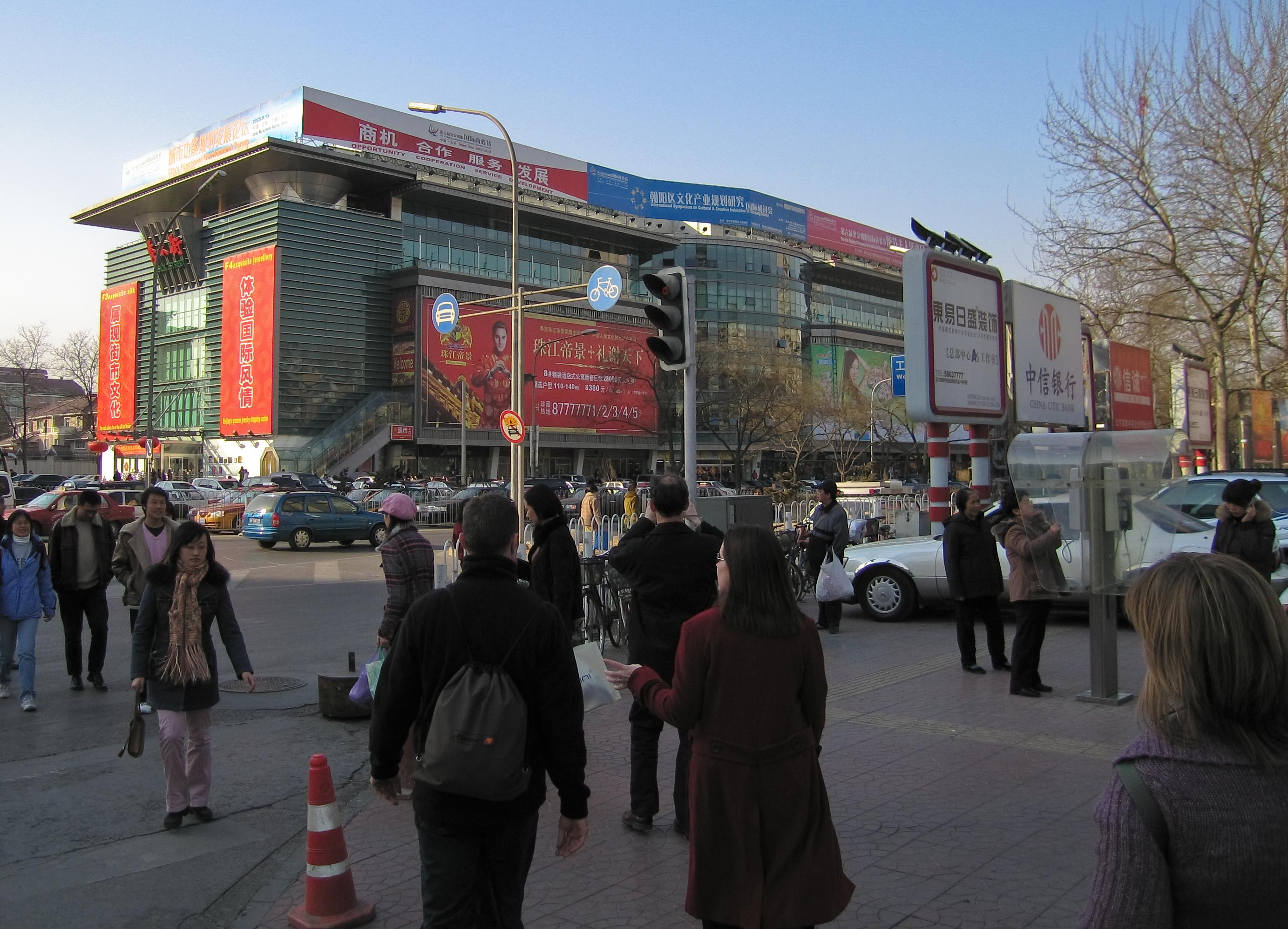 Silk Street shopping center in Beijing, China.